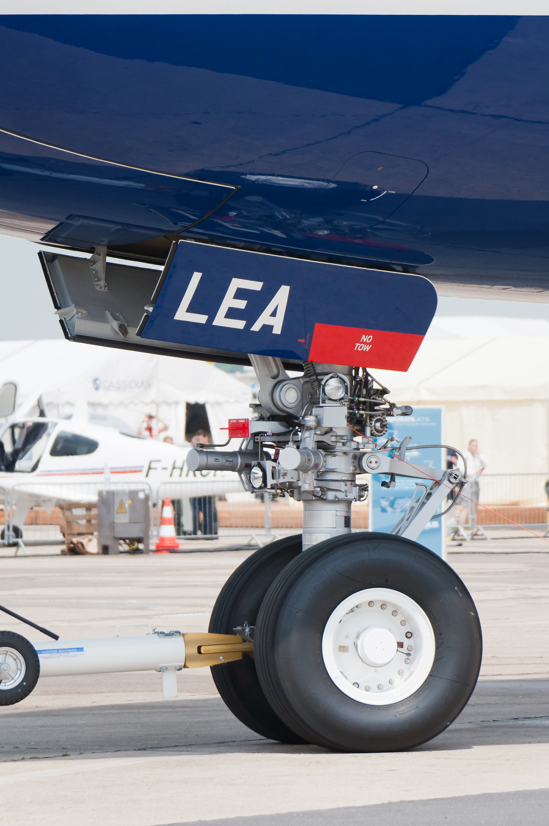 Nose landing gear, British Airways Airbus A380-841 (reg. F-WWSK, c/n 095, normally G-XLEA) at Paris Air Show 2013.